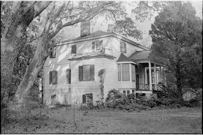 Circa 1970. From Open Parks Network.